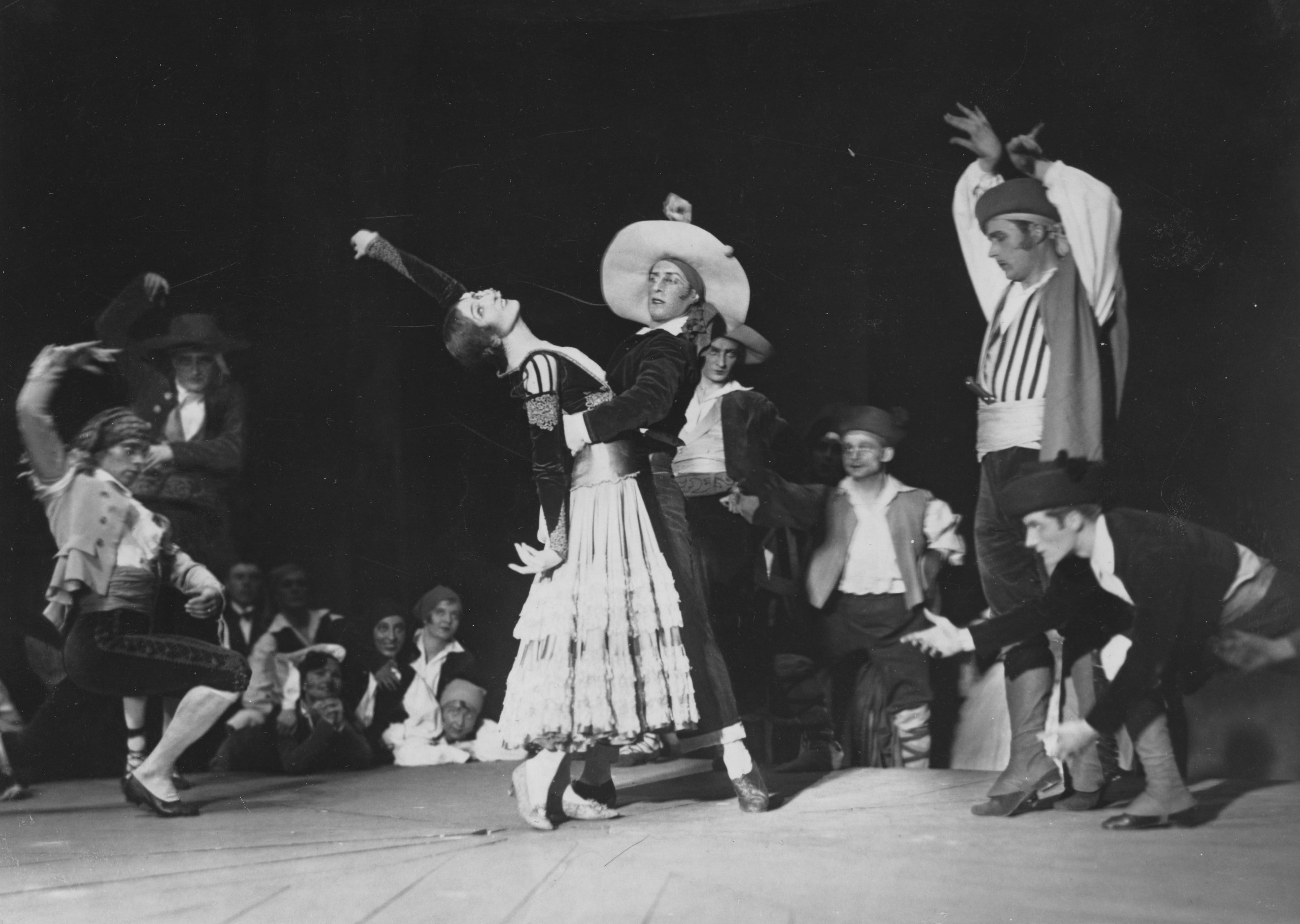 Dancer Ida Rubenstein performs in the original production of Bronislava Nijinska's ballet Boléro, 1928